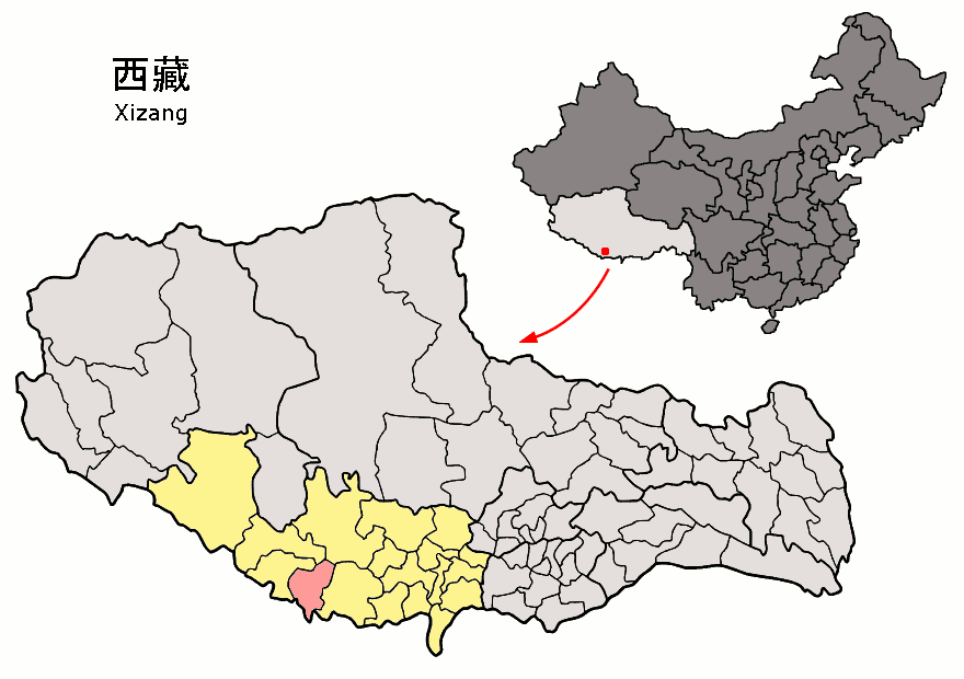 Location of Nyalam County (pink) and Xigazê Prefecture (yellow) within Tibet (Xizang) autonomous region of China